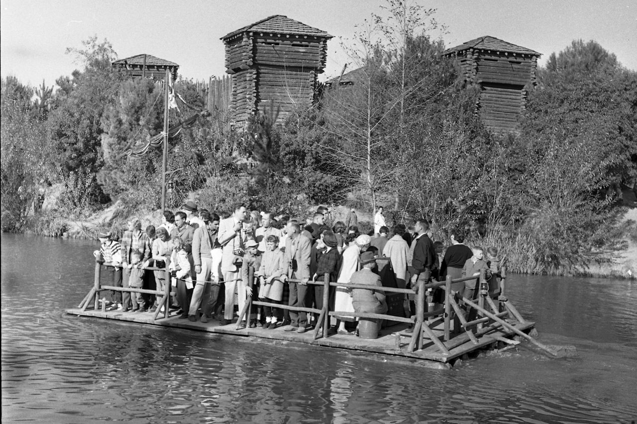 People on a raft to Tom Sawyer Island, Disneyland, California, about 1960